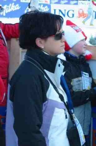 FIS Ski Jumping World Cup in Zakopane, 2003